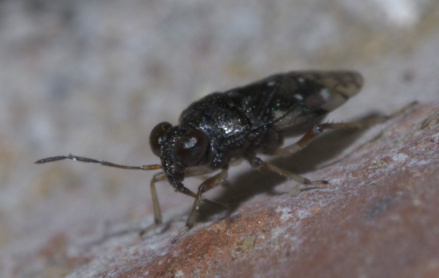 Micracanthia humilis, Family: Shore Bugs, ID Confidence: 98